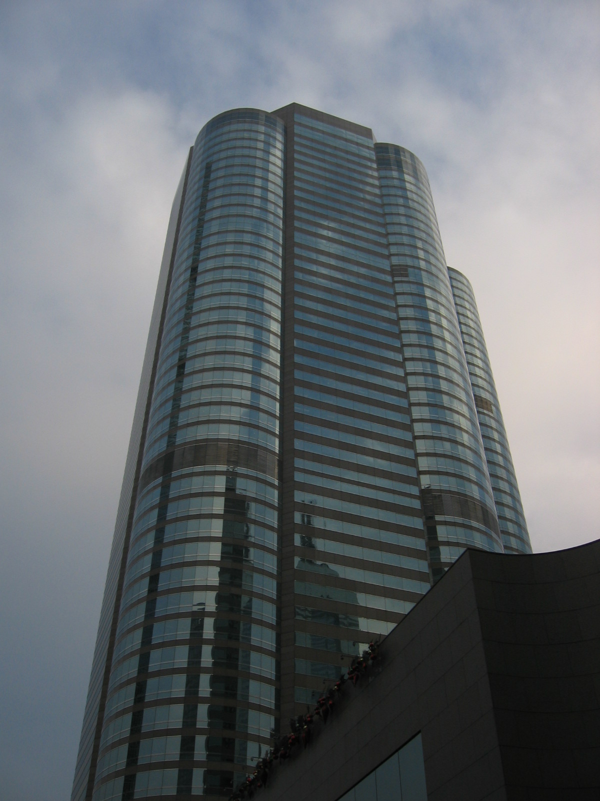 Tower block of Three Exchange Square, Hong Kong.